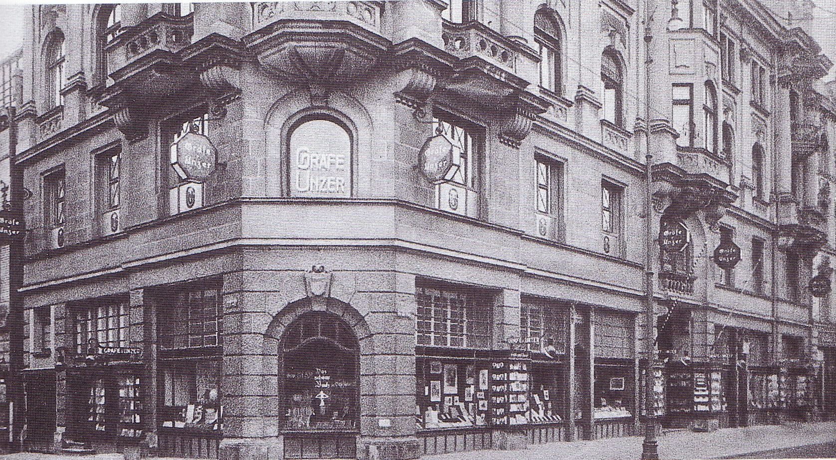 Photography of the bookseller Gräfe und Unzer in Königsberg